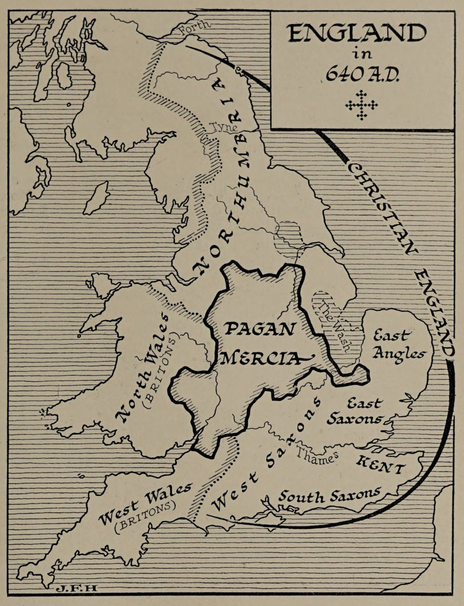 Illustration from page 329 of The outline of history; being a plain history of life and mankind, the definitive edition revised and rearranged by the author, by H.G. Wells, illustrated by J. F. Horrabin, "England in 640 A.D."